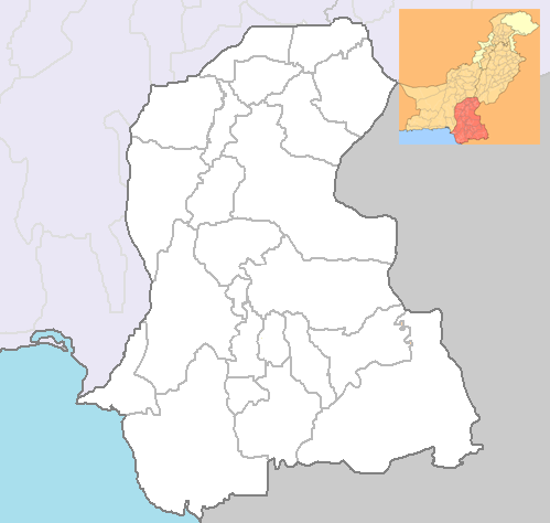 Location of Sindh in Pakistan.